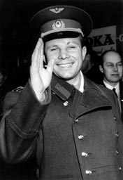 Yuri Gagarin saying hello to the press during a visit to Malmö, Sweden 1964.